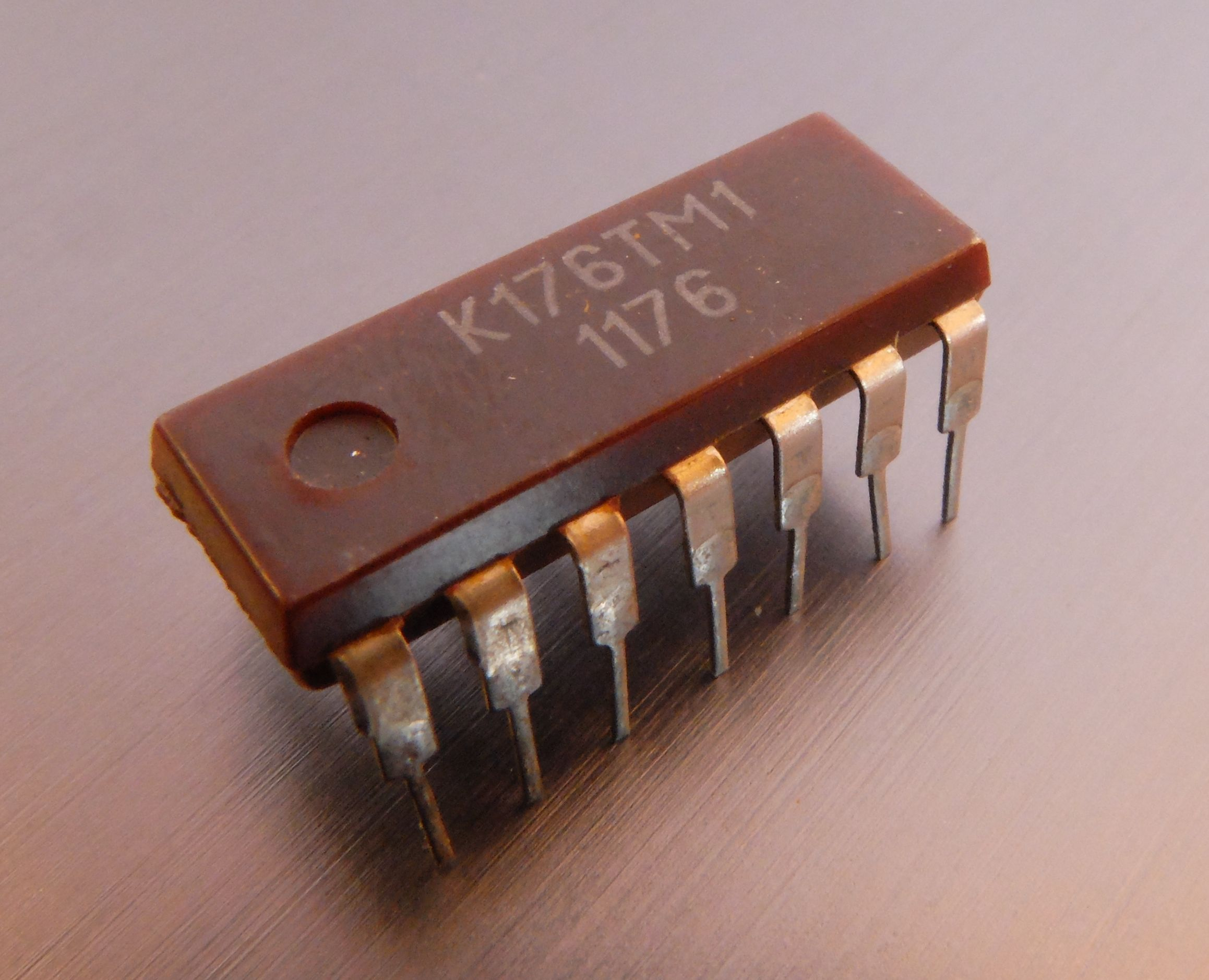 CMOS integrated circuit K176TM1, two D flip-flops - Soviet Union